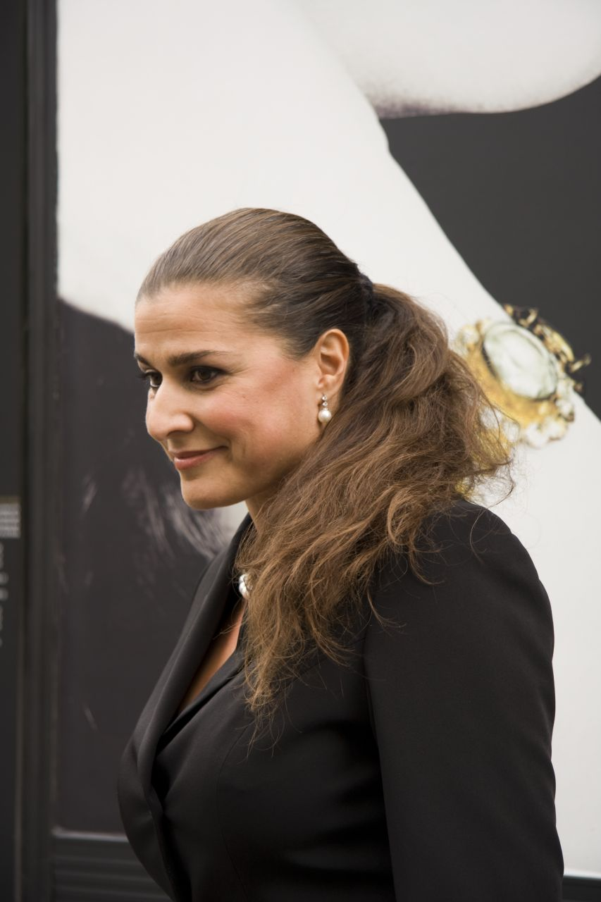 Cecilia Bartoli during her press event at the Center for Fine Arts Brussels (BOZAR)